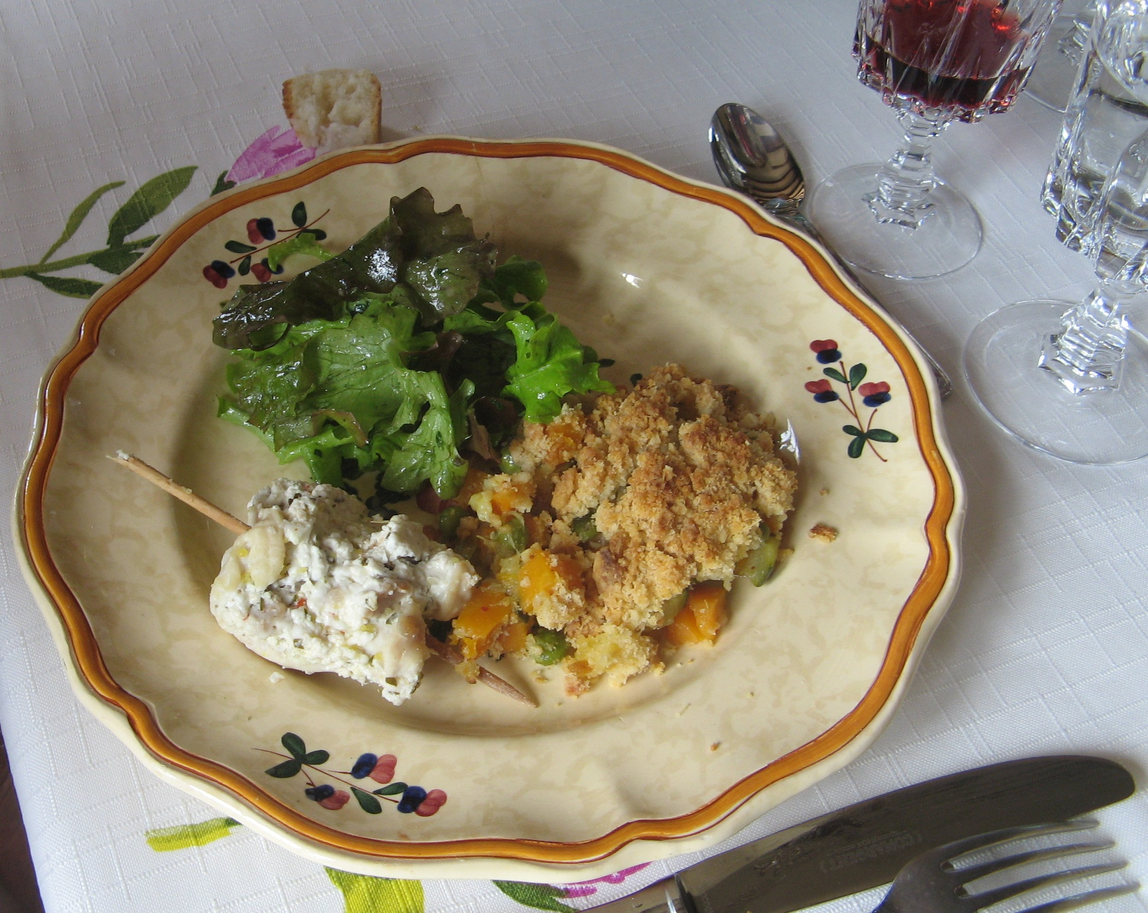 Rolled chicken and goat cheese with a crumble of spring vegetables. The plate is faience of Longchamp, ca 1930.